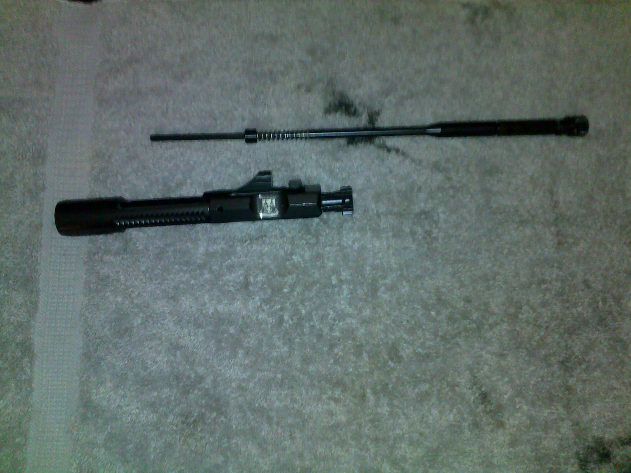 short stroke gas piston and bolt carrier group Zeos386sx (talk) 01:18, 13 February 2011 (UTC)